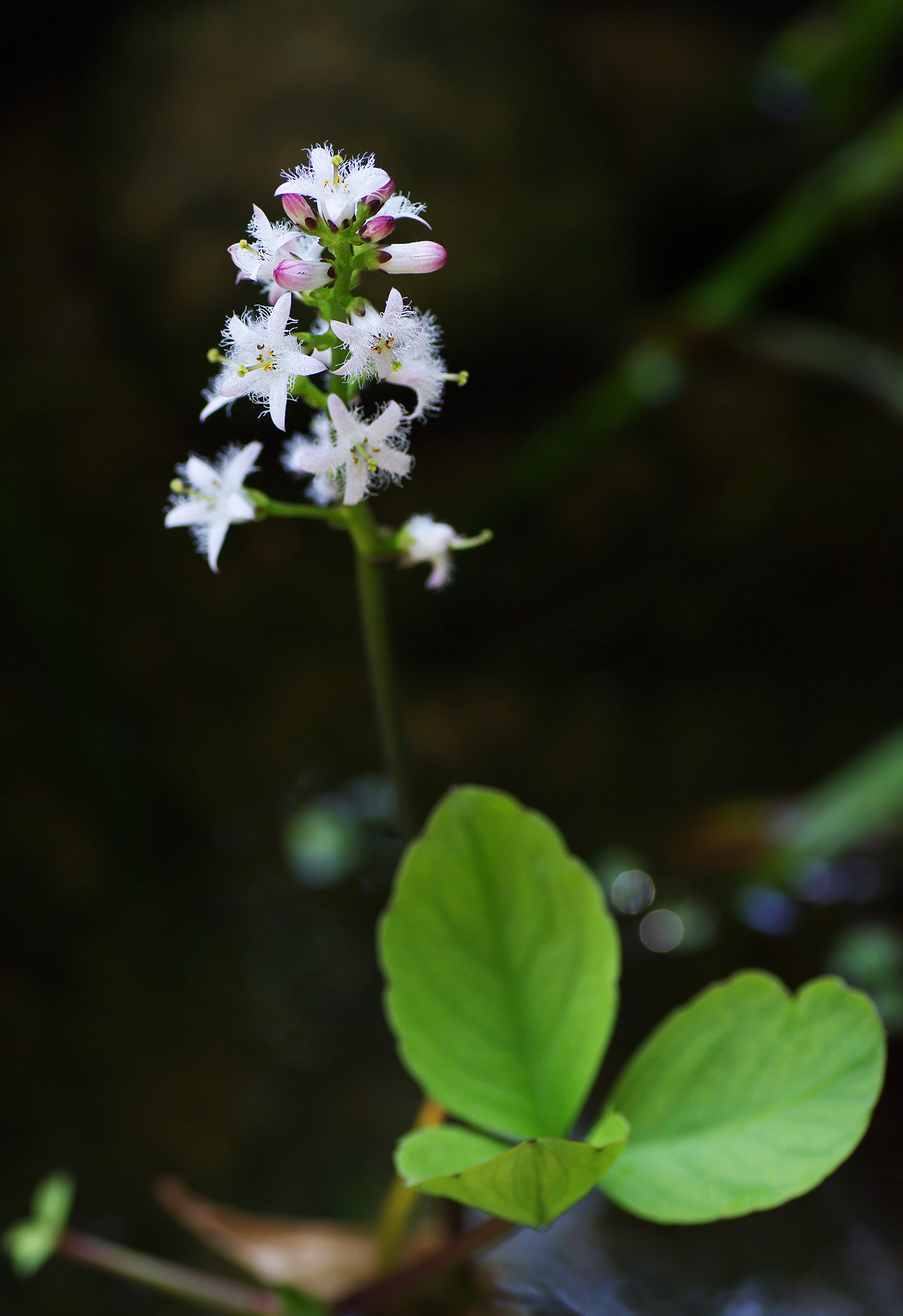 Habitus of Bog-Bean (Menyanthes trifoliata) with freshly unfolded leaves and inflorescence just opened.